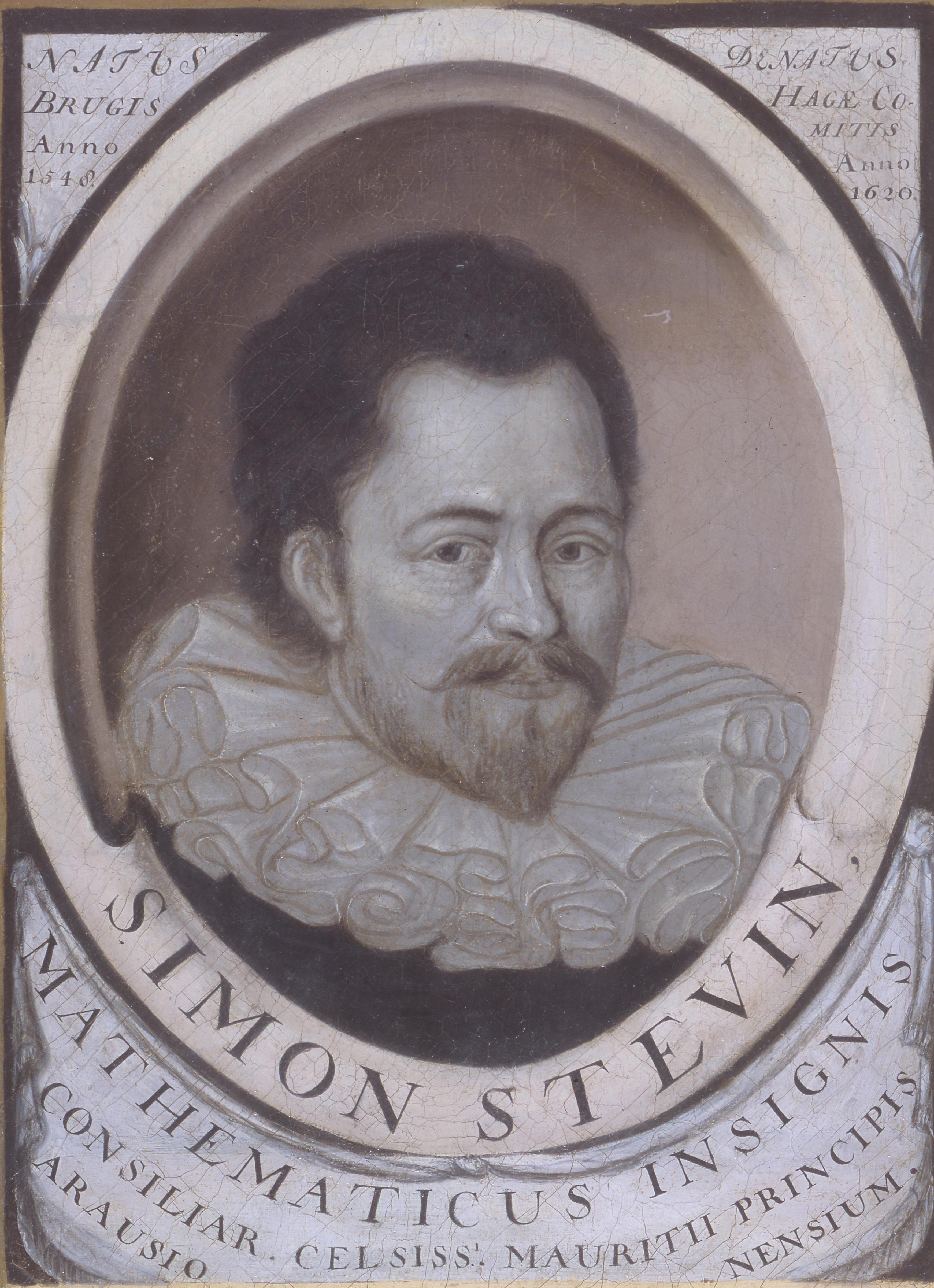 Anonymous Dutch painter / engraver, 17th century. Collection Leiden University, Icones Leidenses 40.